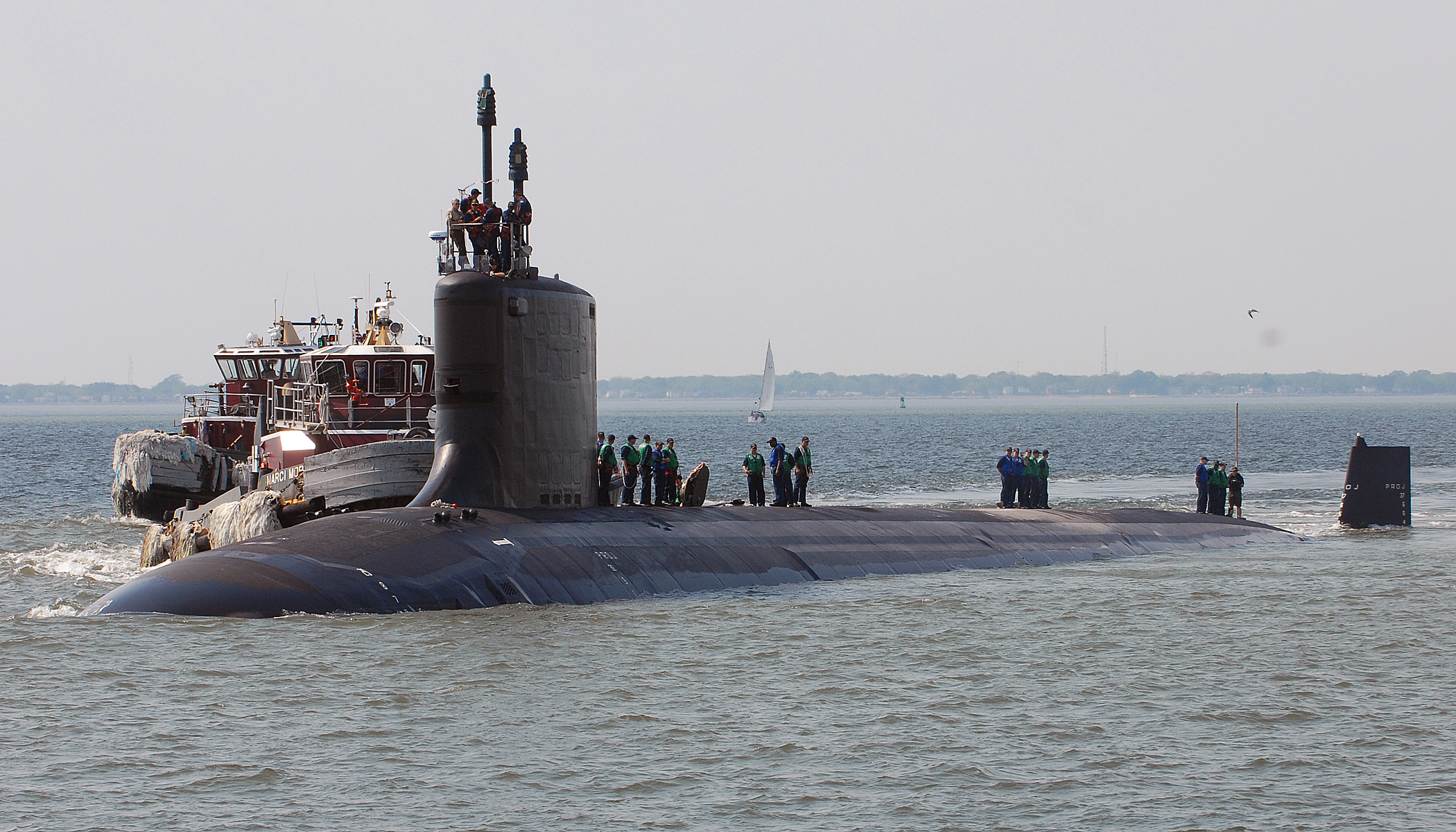 The Virginia-class submarine USS North Carolina pulls into Naval Station Norfolk following a brief deployment. North Carolina was commissioned in Wilmington, N.C., May 3.